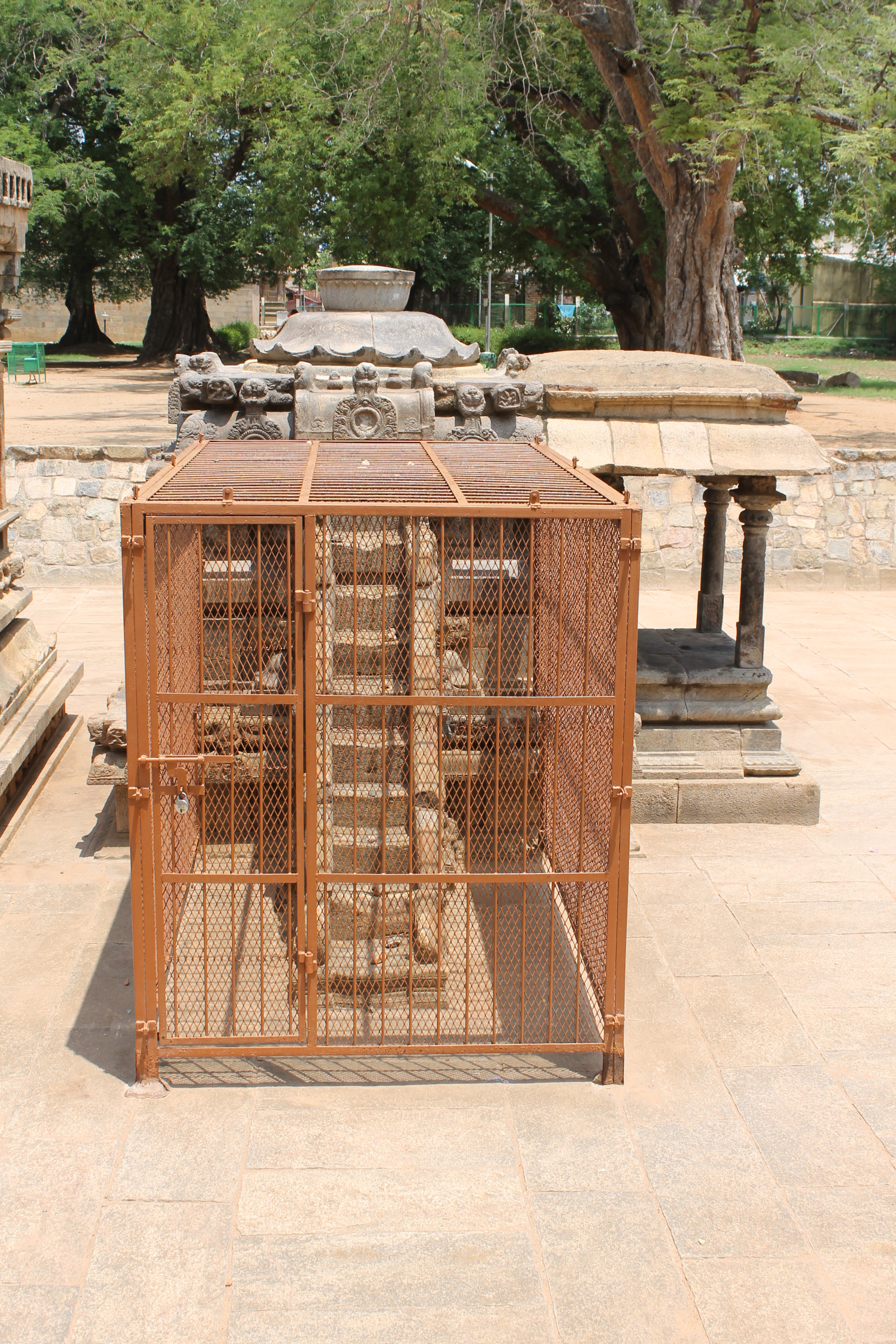 "A beautiful musical steps in Airavatesvara Temple". Location: Chatram, Darasuram, near Kumbakonam, Thanjavur District, Tamil Nadu, India.